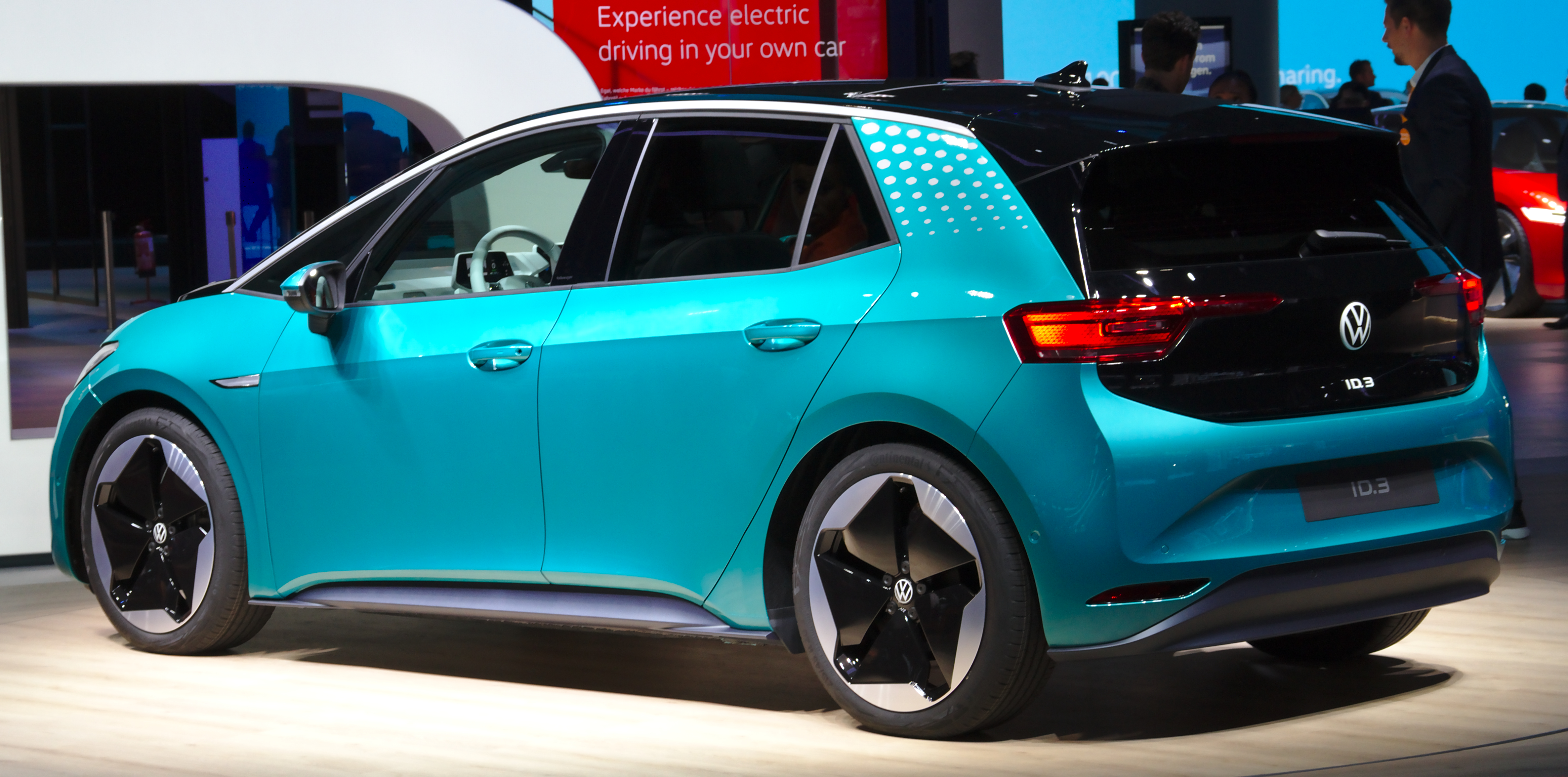 Volkswagen_ID.3 at IAA 2019